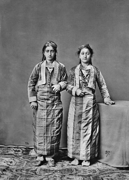 Armenian women in short jackets and straight skirts. Armenia. Armenians. Photographer D.N. Ermakov. 1881